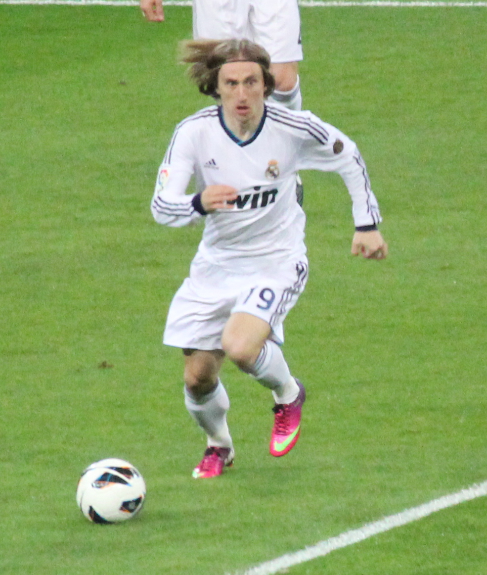 Real Madrid v Sevilla 10 February 2013 in a La Liga game at Real Madrid's home grounds.